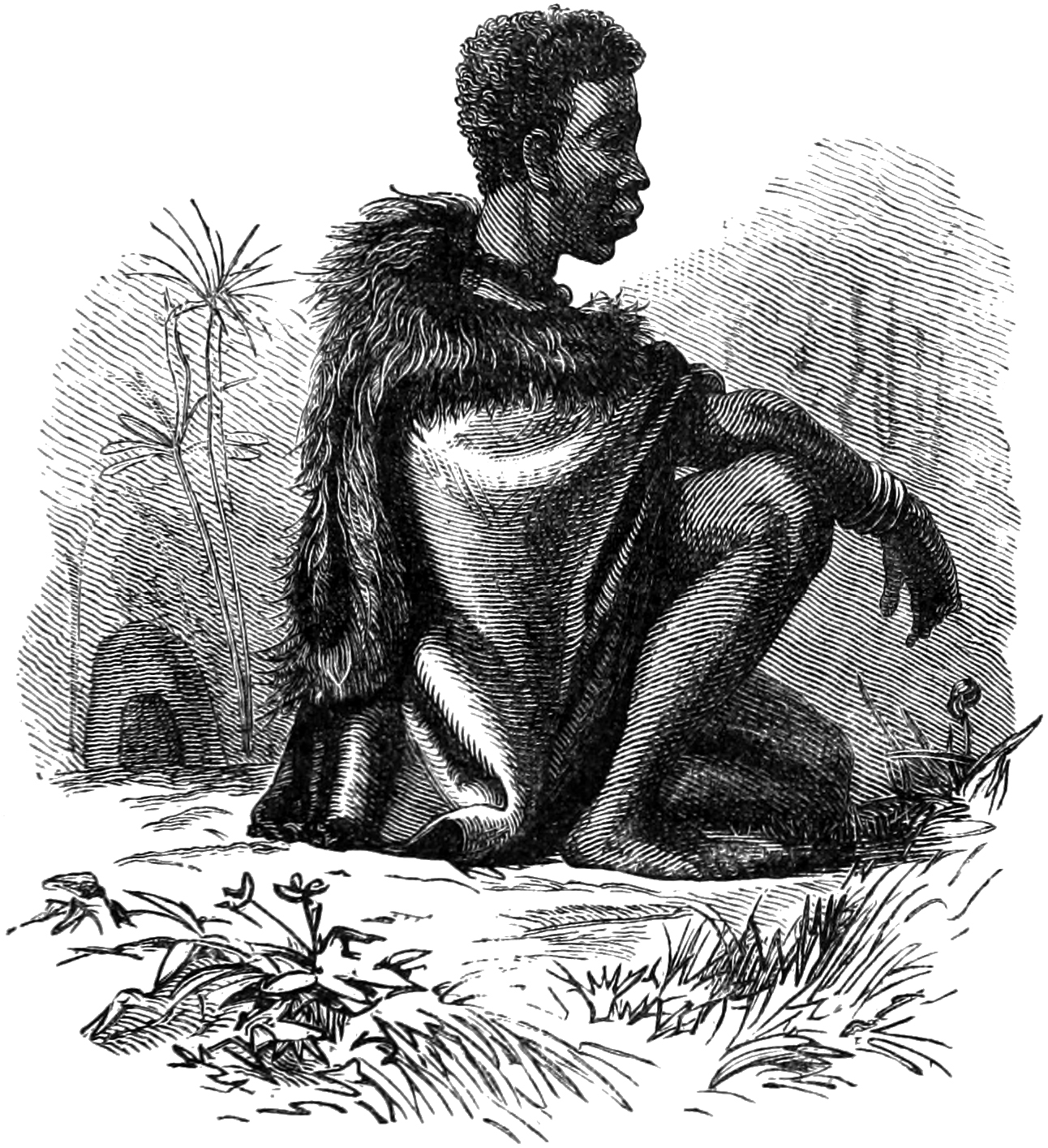 Wana Wena (Mwanawina II), the new king of the Marutse, from the book Seven Years in South Africa, volume 2, page 357